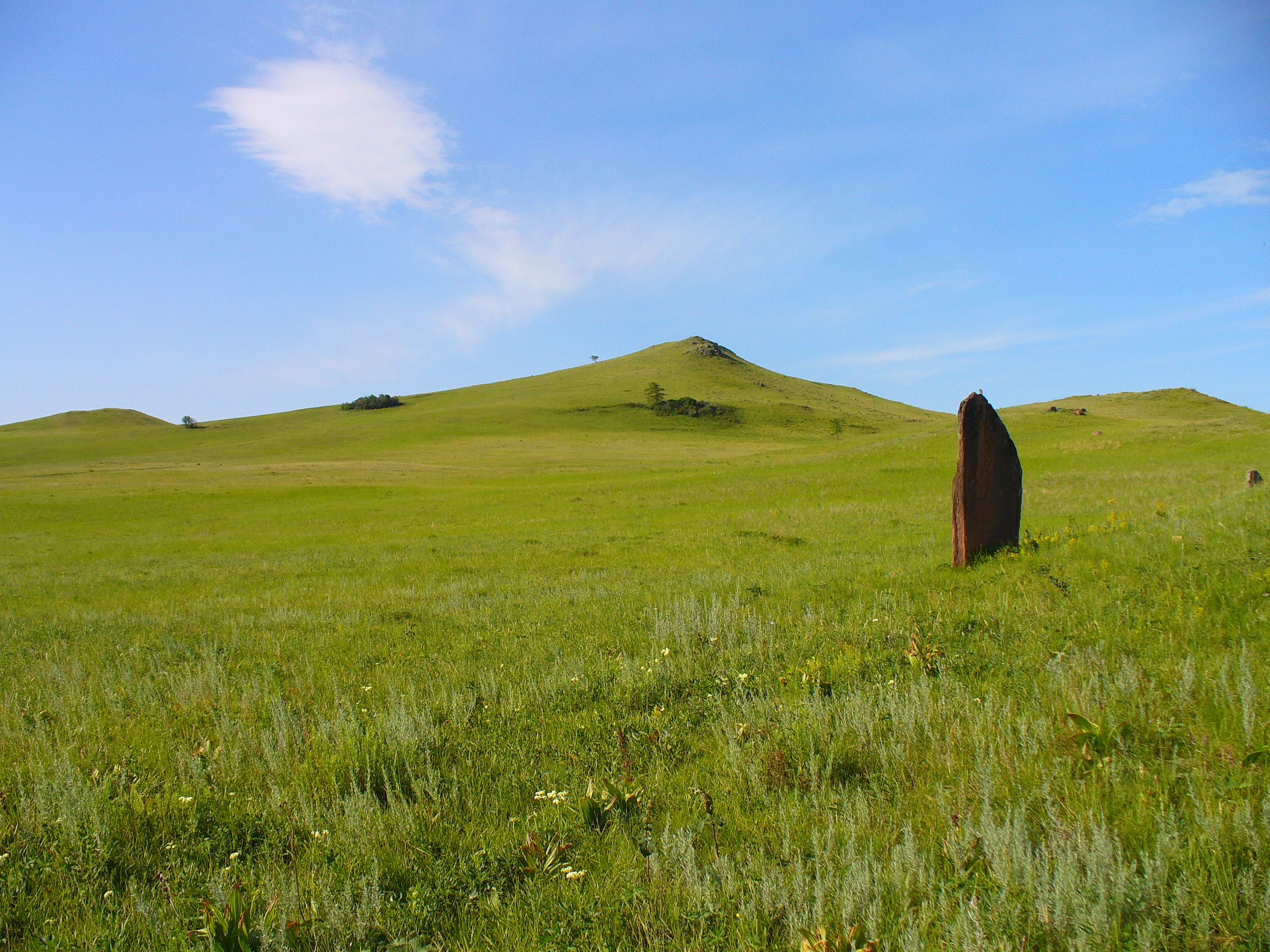 Kurgan, Republic of Khakassia, Russia. Geological survey.